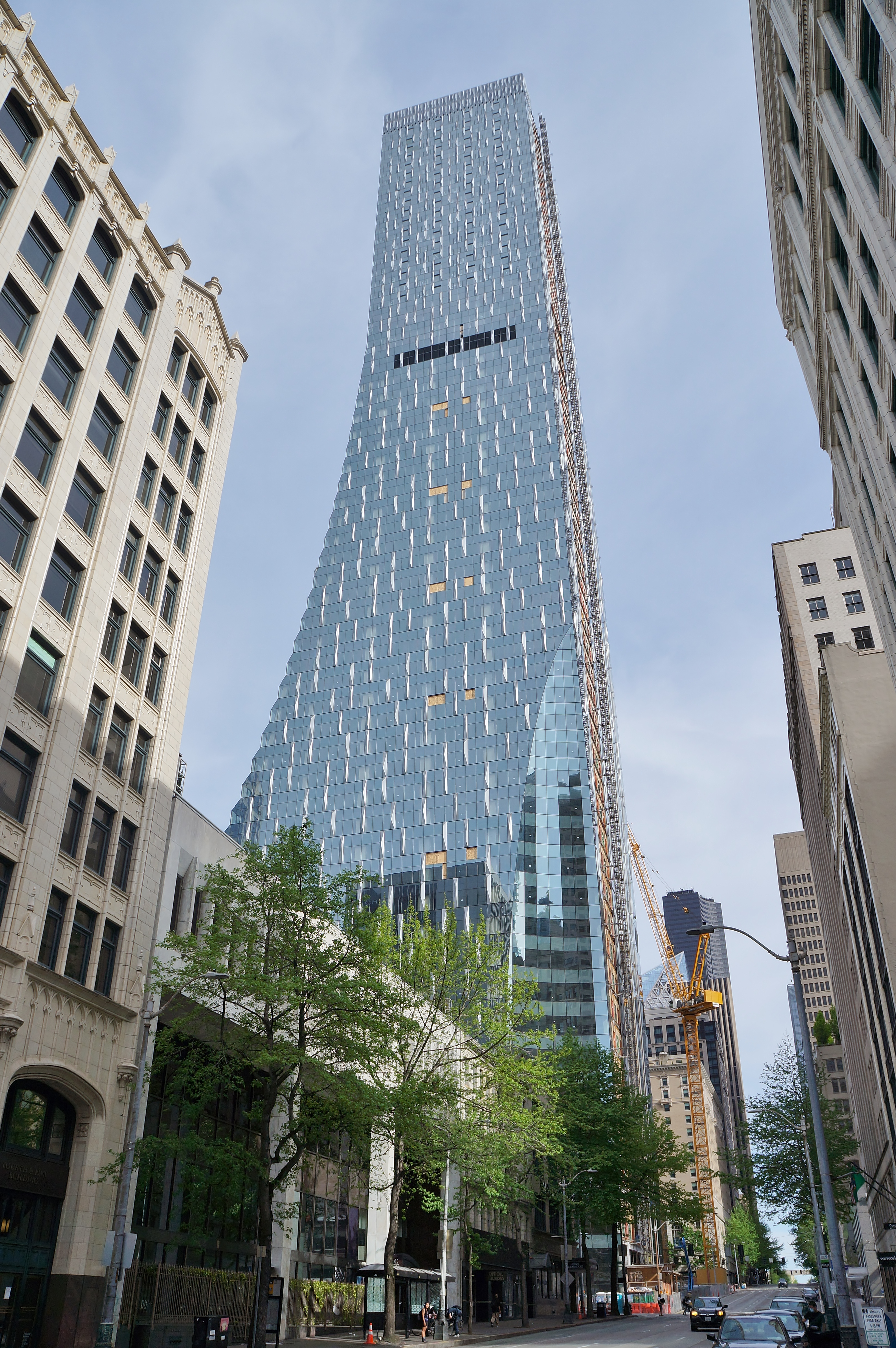 Looking south at the under construction Rainier Square Tower in downtown Seattle from 4th Avenue and Union Street.